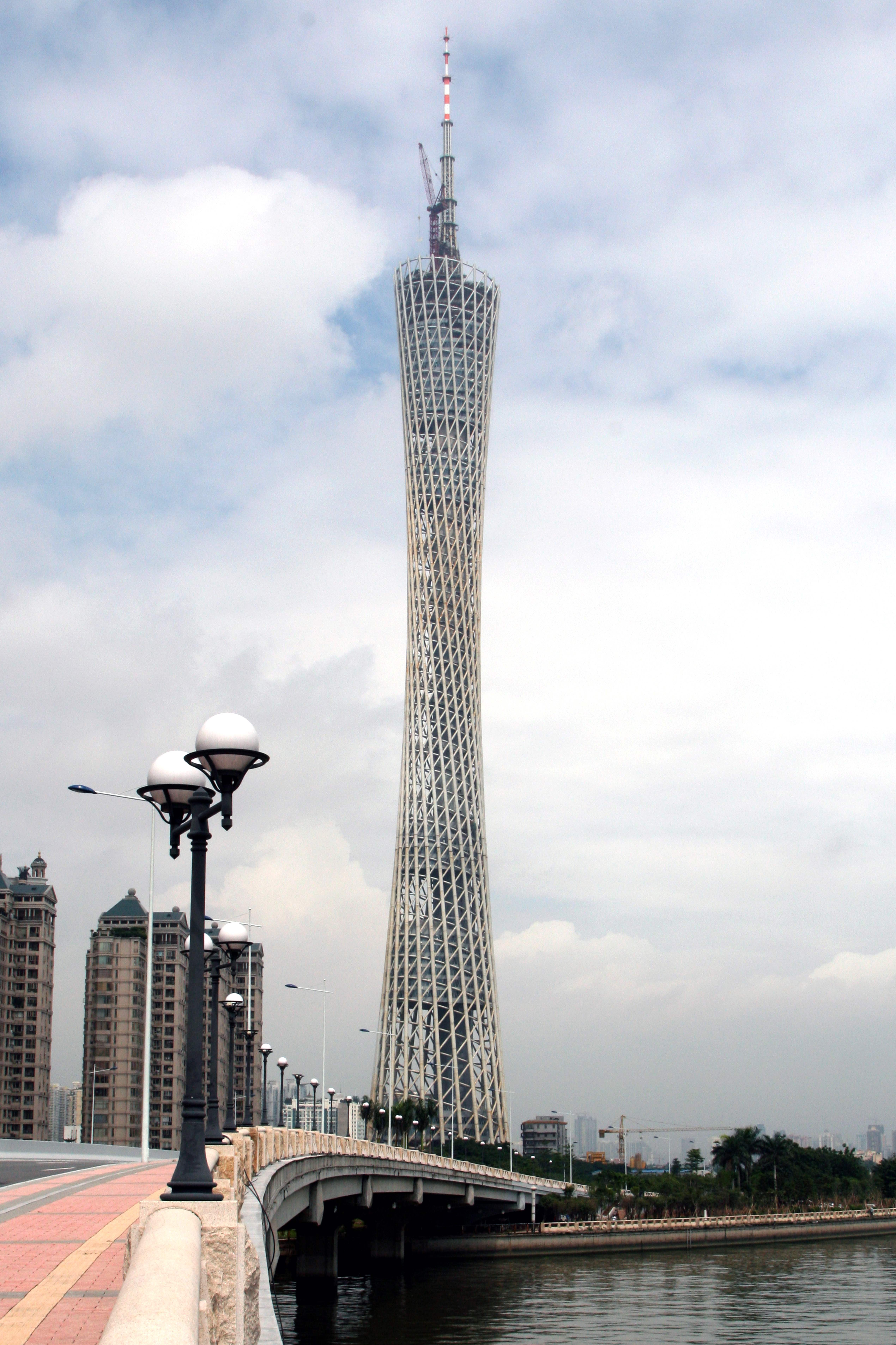 Guangzhou Tower 2009